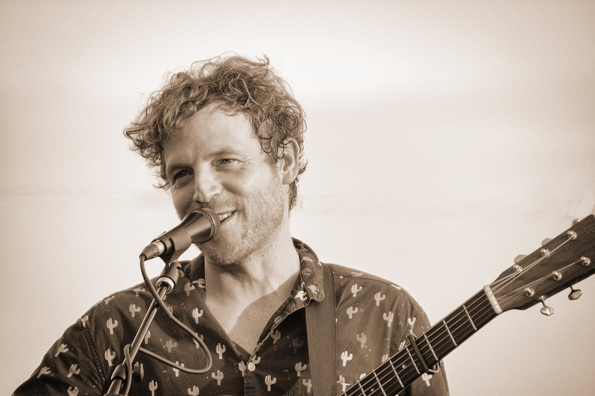 Photo of singer-songwriter Korby Lenker.